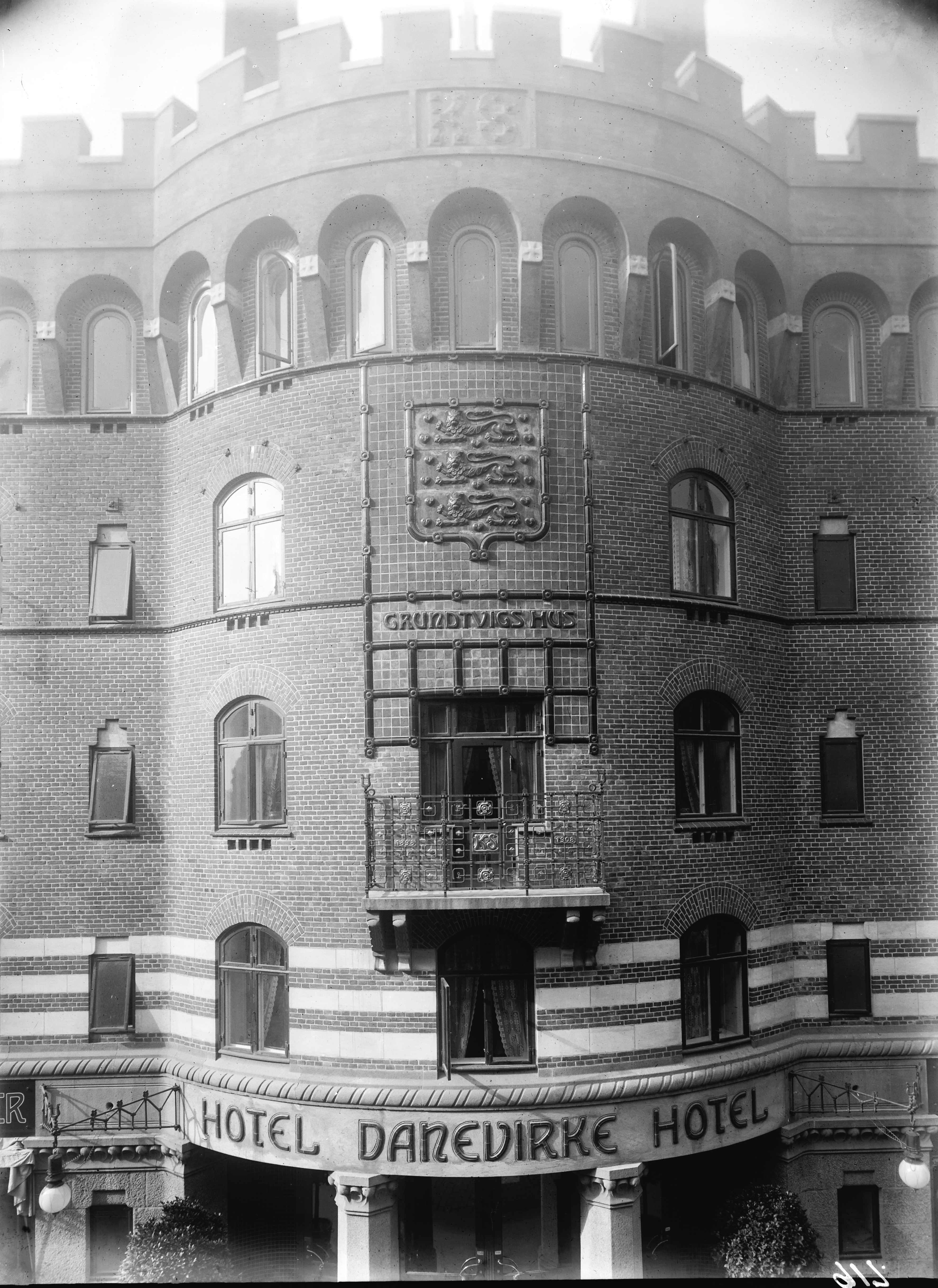 Grundtvig's House, Studiestræde 36-40, Copenhagen, architect Rolf Schroeder, built 1906-1908.